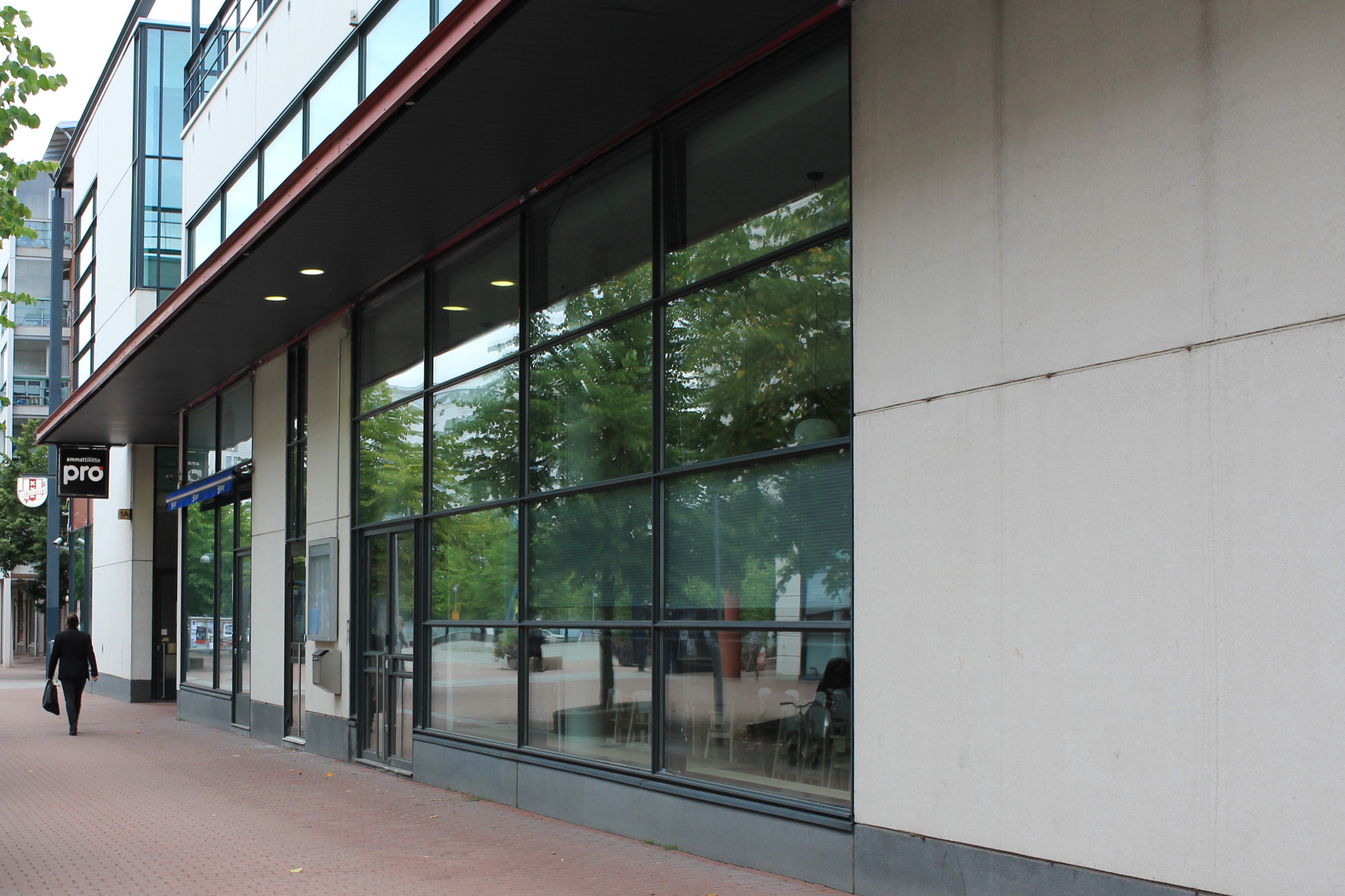 Former Ruoholahti chapel, Helsinki, Finland.